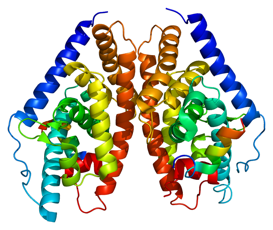 Structure of the NR1H2 protein. Based on PyMOL rendering of PDB 1p8d.